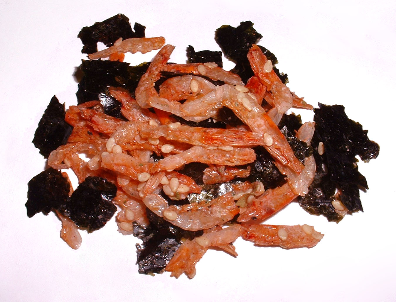 Cherry shrimp (Sakura ebi), a specialty of Donggang, Taiwan. Served with dried seaweed and sesame.